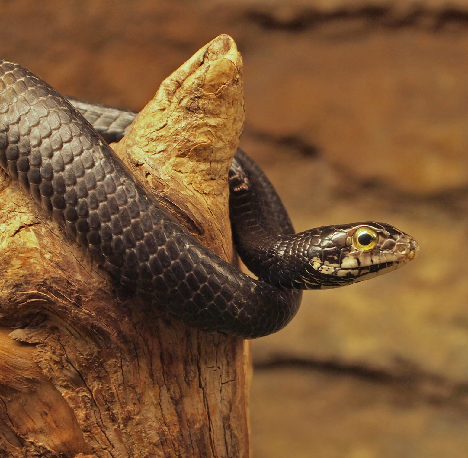 A black snake in Skansen Aquarium, Stockholm.